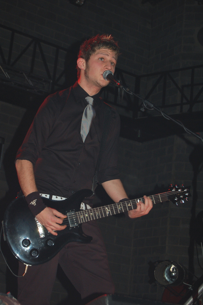 doin' chorus